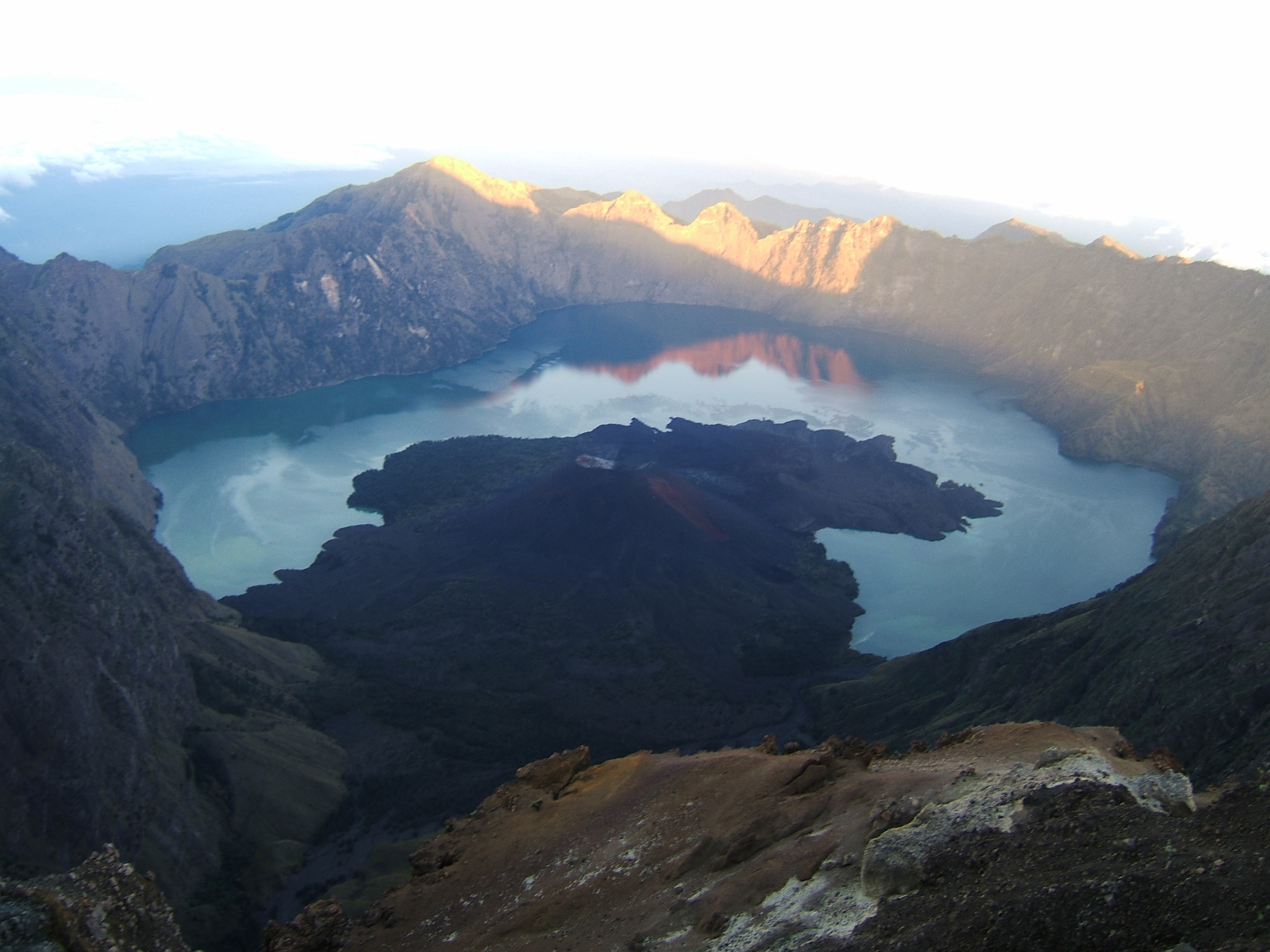 Sunrise on the top of one of numerous Indonesian volcanoes